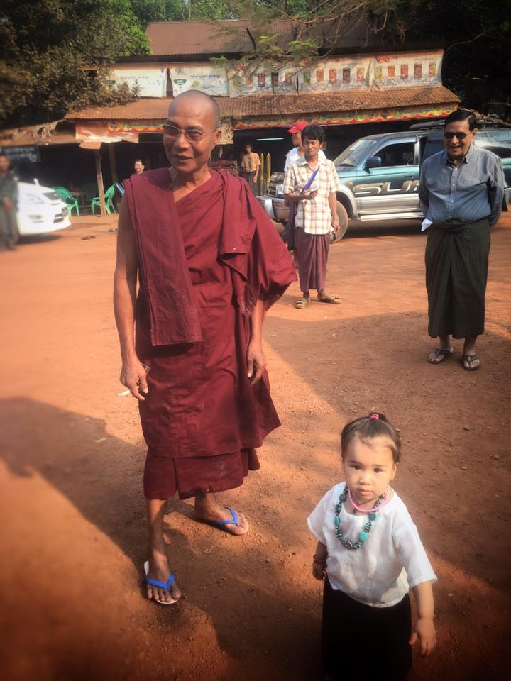 Abbot Bhaddanta Nargadipa, the second Sayardaw of Kyaikhtisaung, giving candy to a young child, 2016